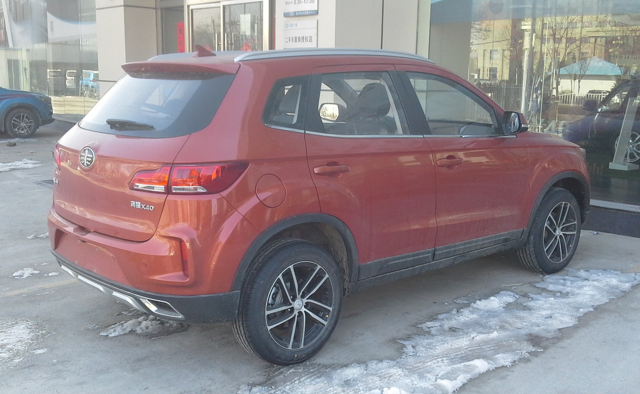 Besturn X40 photographed in Hohhot, Inner Mongolia province, China.